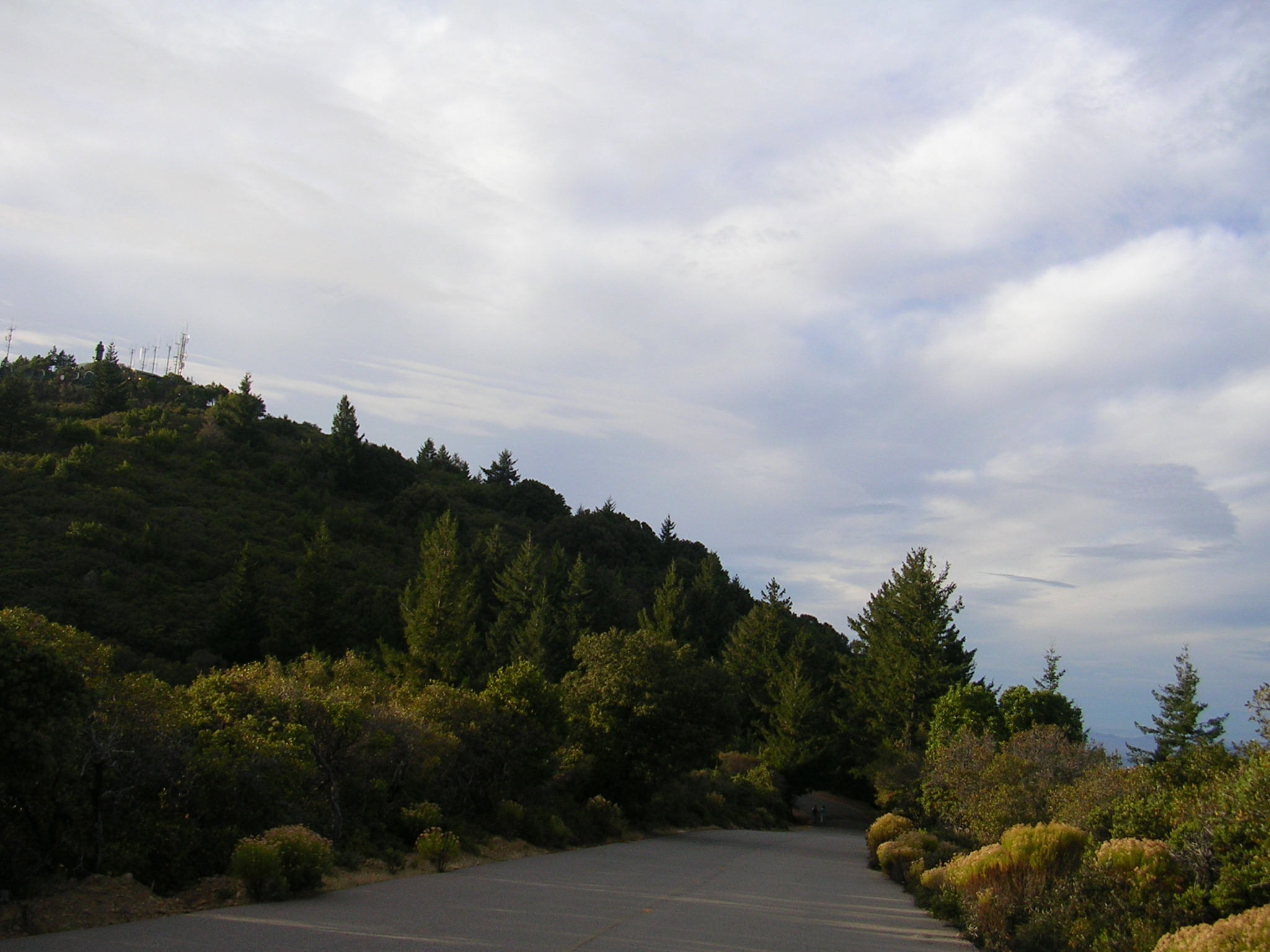 A stand of Douglas-firs in the midst of chaparral landscape near the summit of Mount Tamalpais.